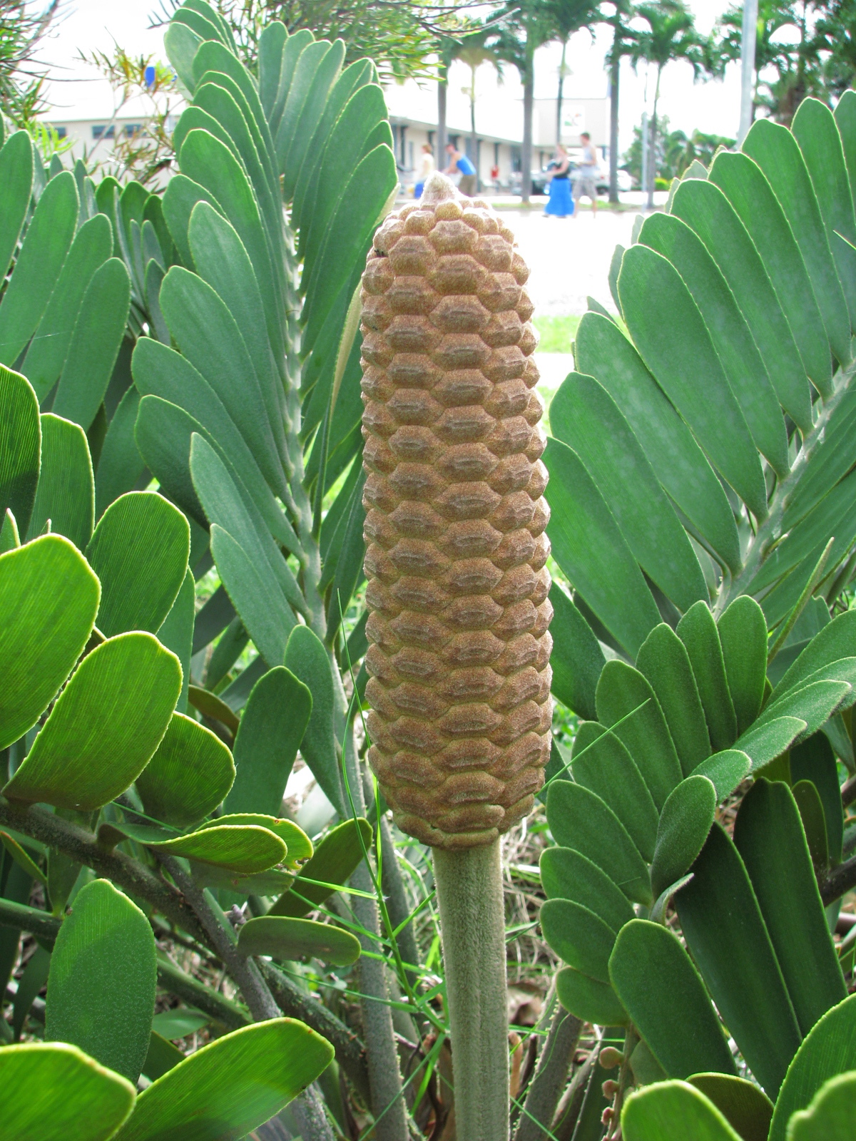 Female cone on a young plant.